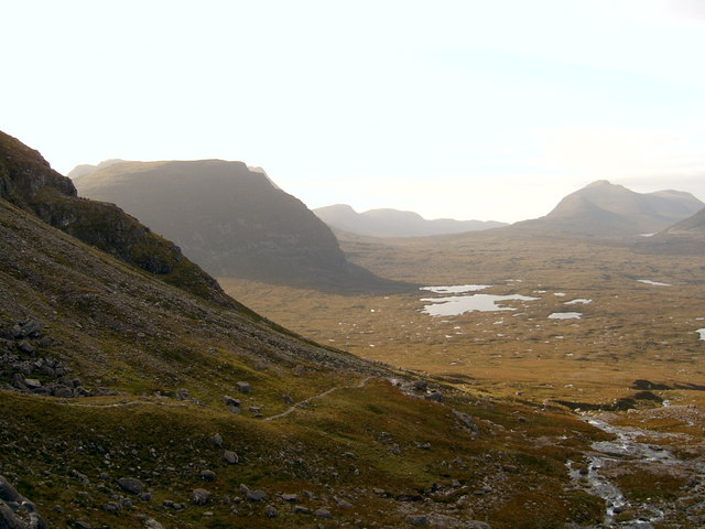 Footpath to Coire Mhic Fhearchair A footpath climbs around the north side of Sàil Mhòr, one of Beinn Eighe's many peaks, to make a dramatic entrance at the mouth of the spectacular Coire Mhic Fhearchair. A view beyond, across the emptyness of the Fisherfield Forest.